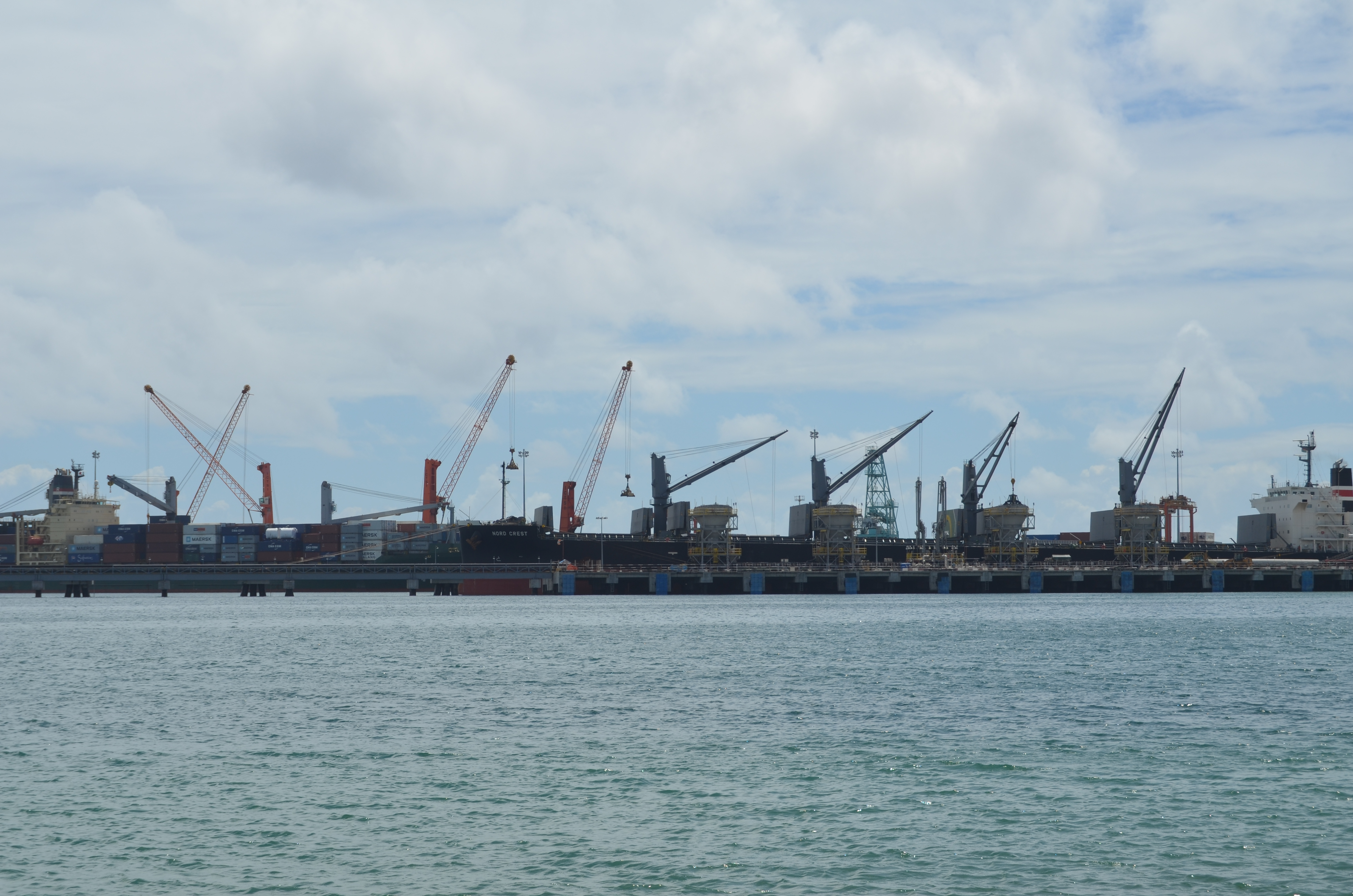 Port of Toamasina.